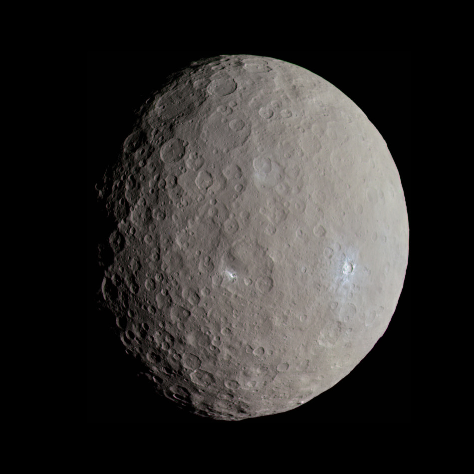 Approximate true-color image of Ceres, using the F7 ('red'), F2 ('green') and F8 ('blue') filters, projected onto a clear filter image. Images were acquired by Dawn at 04:13 UT May 4, 2015, at a distance of 13641 km. At the time, Dawn was over Ceres' northern hemisphere. The prominent, bright crater at right is Haulani. The smaller bright spot to its left is exposed on the floor of Oxo. Ejecta from these impacts appears to have exposed high albedo material similar to deposits found on the floor of Occator Crater. Image Credit: NASA / JPL-Caltech / UCLA / MPS / DLR / IDA / Justin Cowart